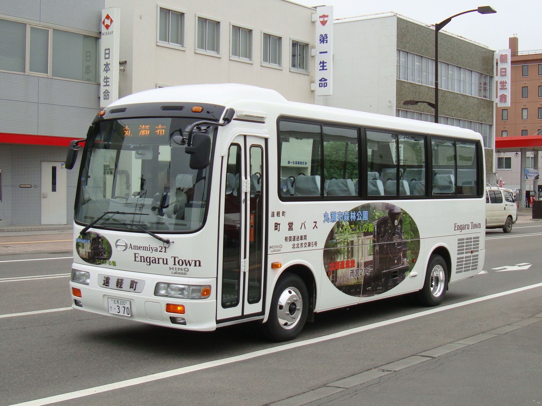 Engaru town line